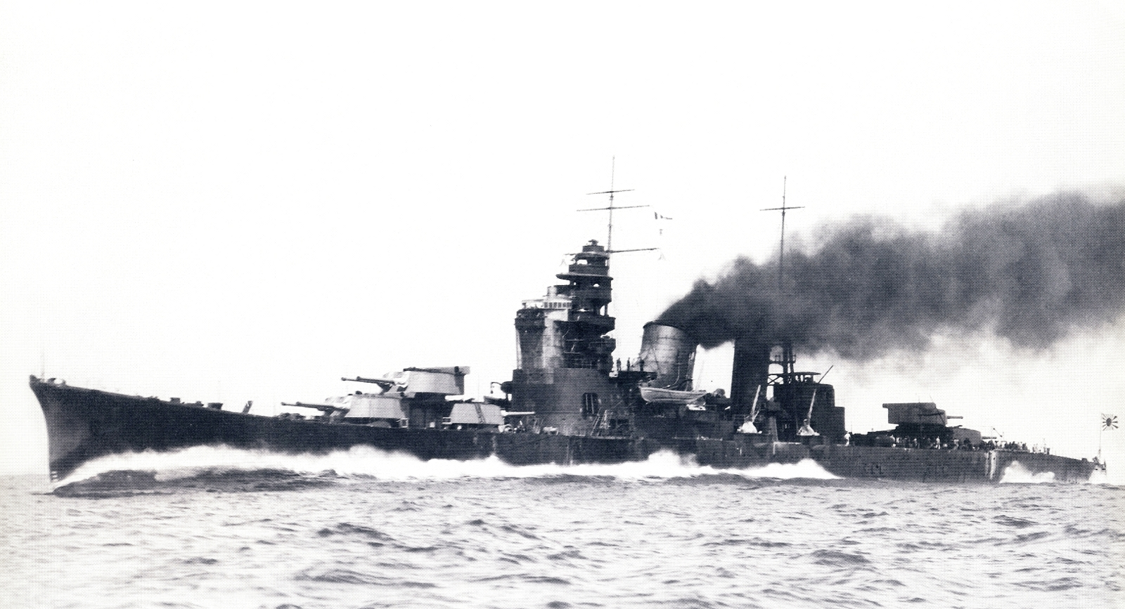 Heavy cruiser Nachi on trials.